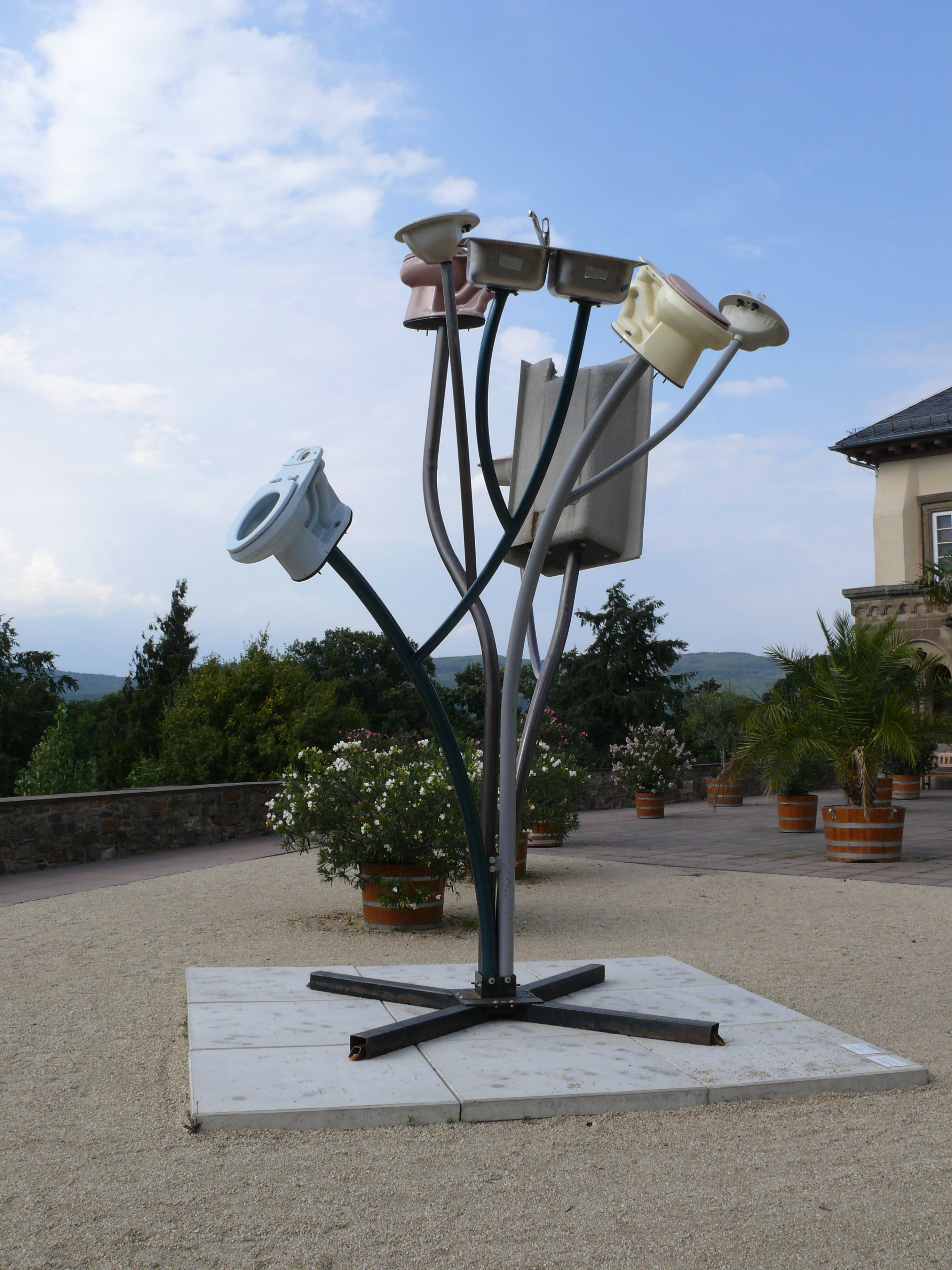 "Tree (From Alternative Landscape Components)" from Dennis Oppenheim at "blickachsen 7", 2009, "Schlosshof" of Bad Homburg, Hesse, Germany